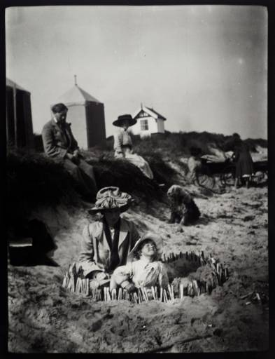 Vanessa Bell and her son Julian on the beach at Studland, Dorset, with Clive Bell and Mabel Selwood, their maid, in the background.